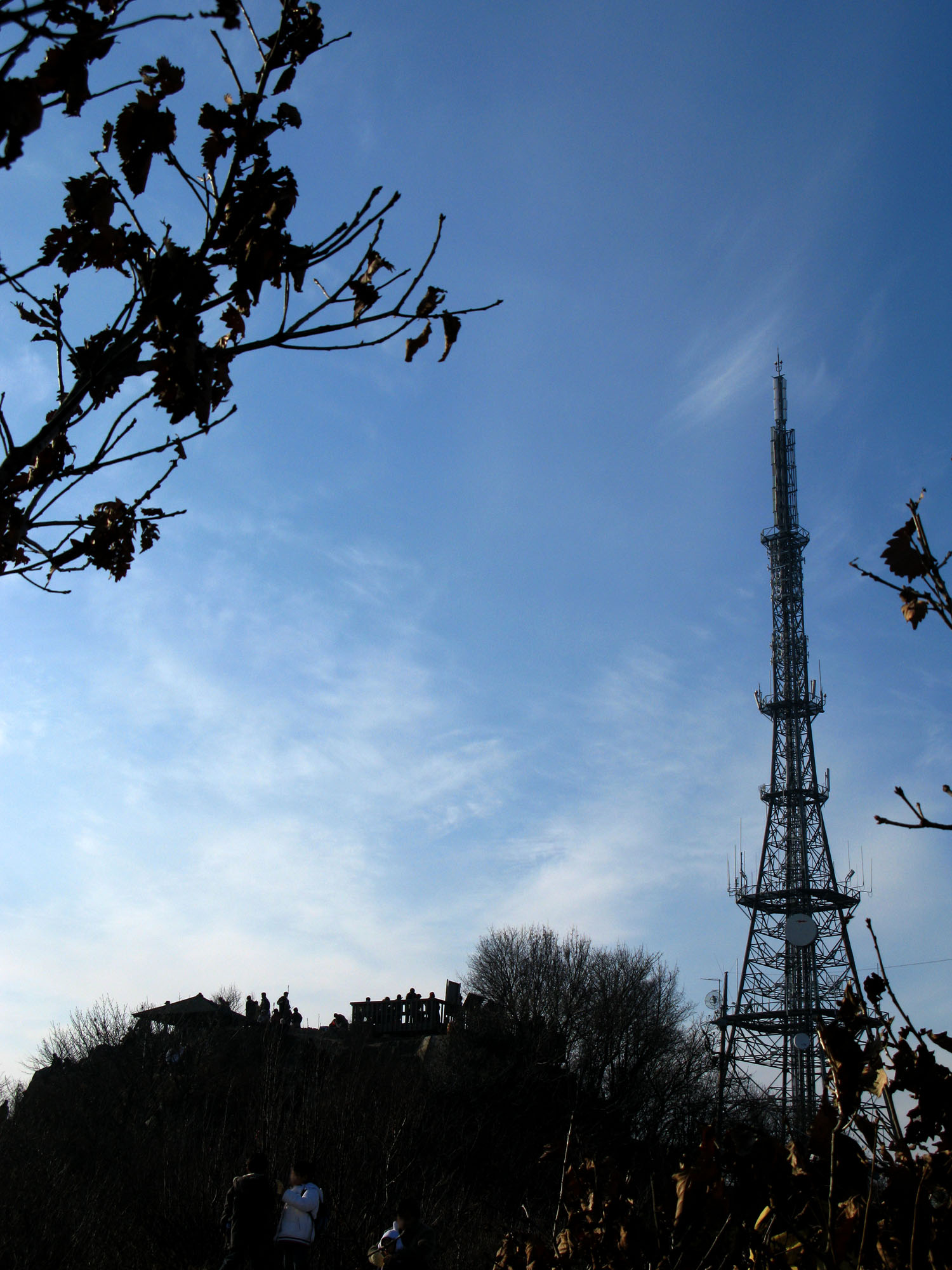 Peak of Gyeyang Mountain